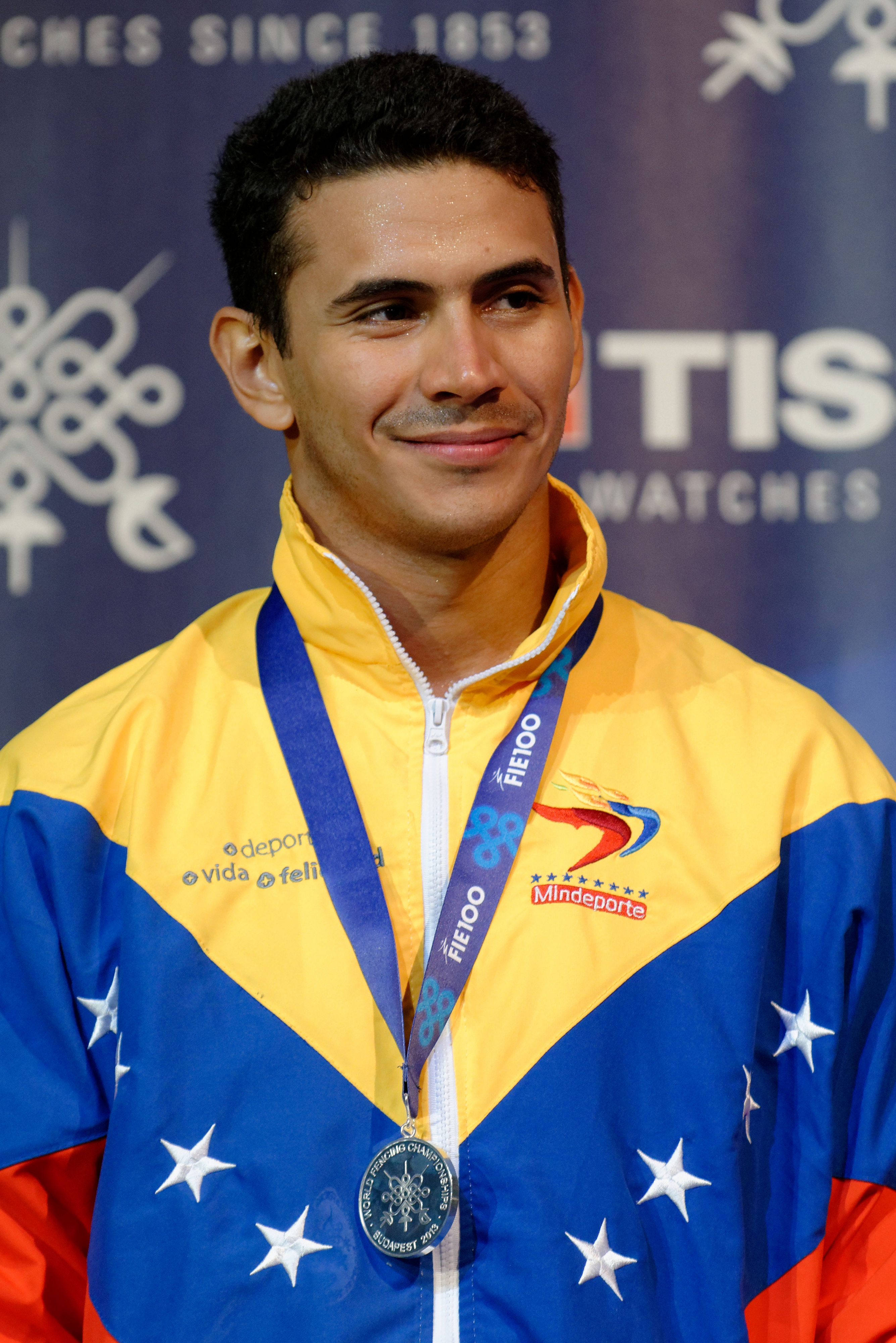 Venezuela's Rubén Limardo stands on the podium of the men's épée event in the 2013 World Fencing Championships 2013 at Syma Hall in Budapest, 8 August 2013.